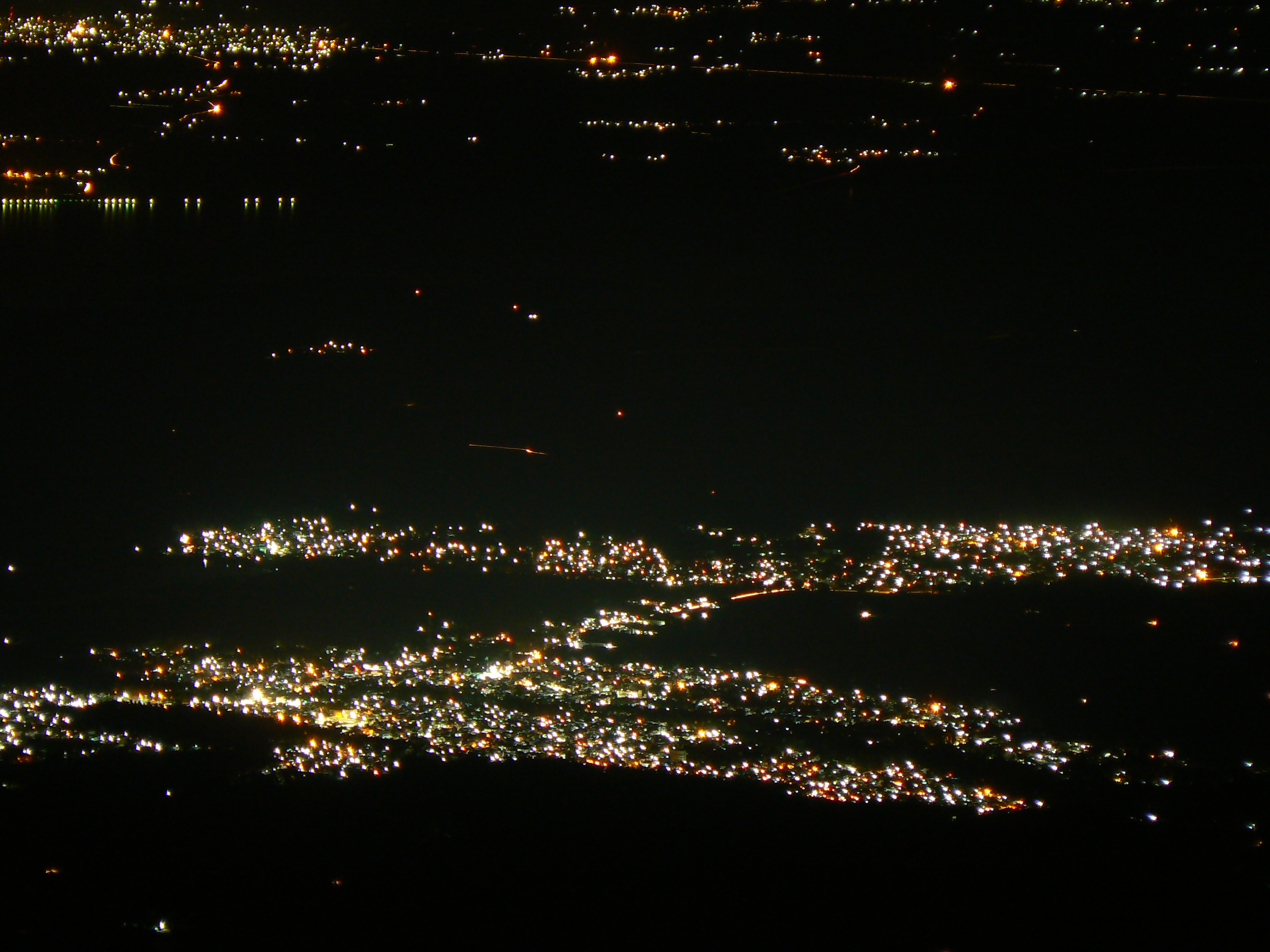 Theni/Periyakulam View at Night from Kodai